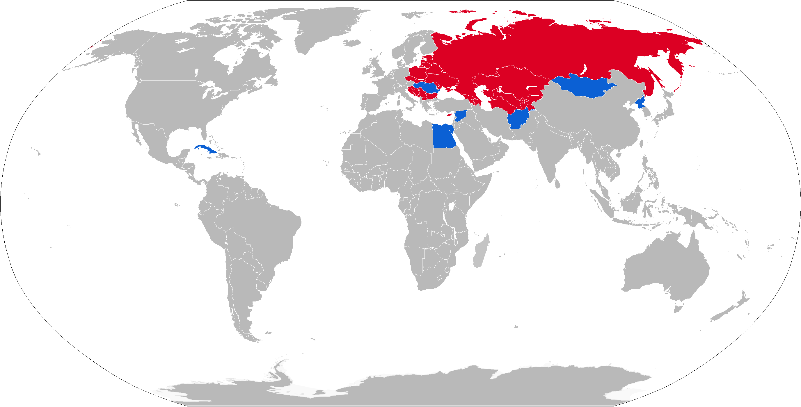 Map with 3M6 operators in blue with former operators in red